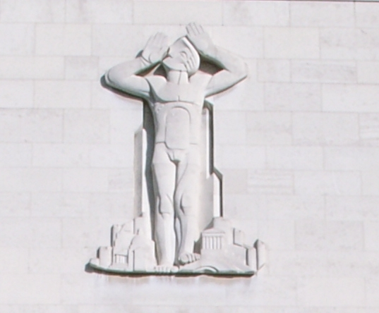 Architectural Aspiration, Sculpture by Edward Bainbridge Copnall on the elevation of the RIBA Building, 66 Portland Place, London